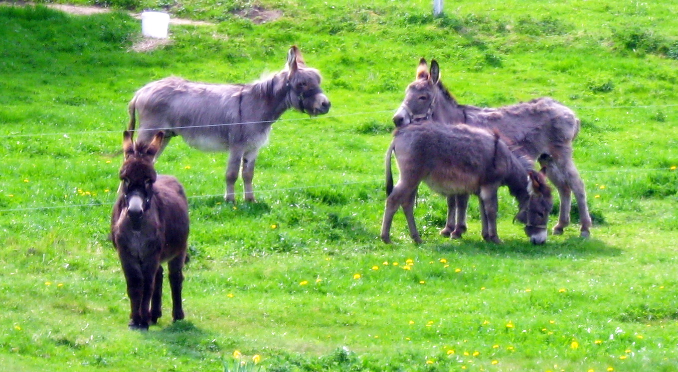 4 donkeys